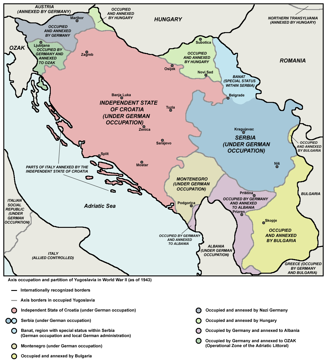 Axis occupation and partition of Yugoslavia in World War II (as of 1943).